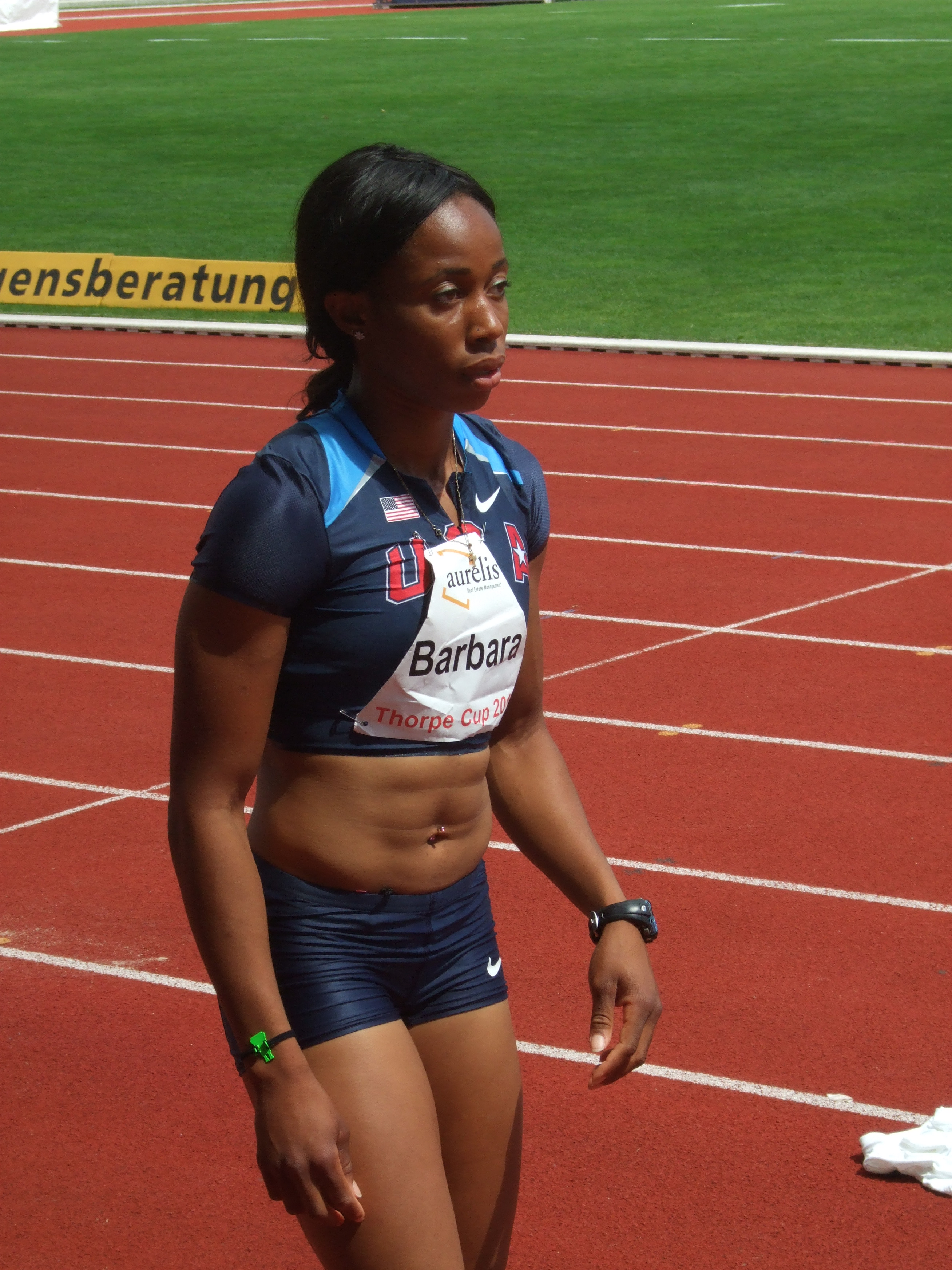 The heptathlete Barbara Nwaba competing in the long jump at the 2012 Thorpe Cup